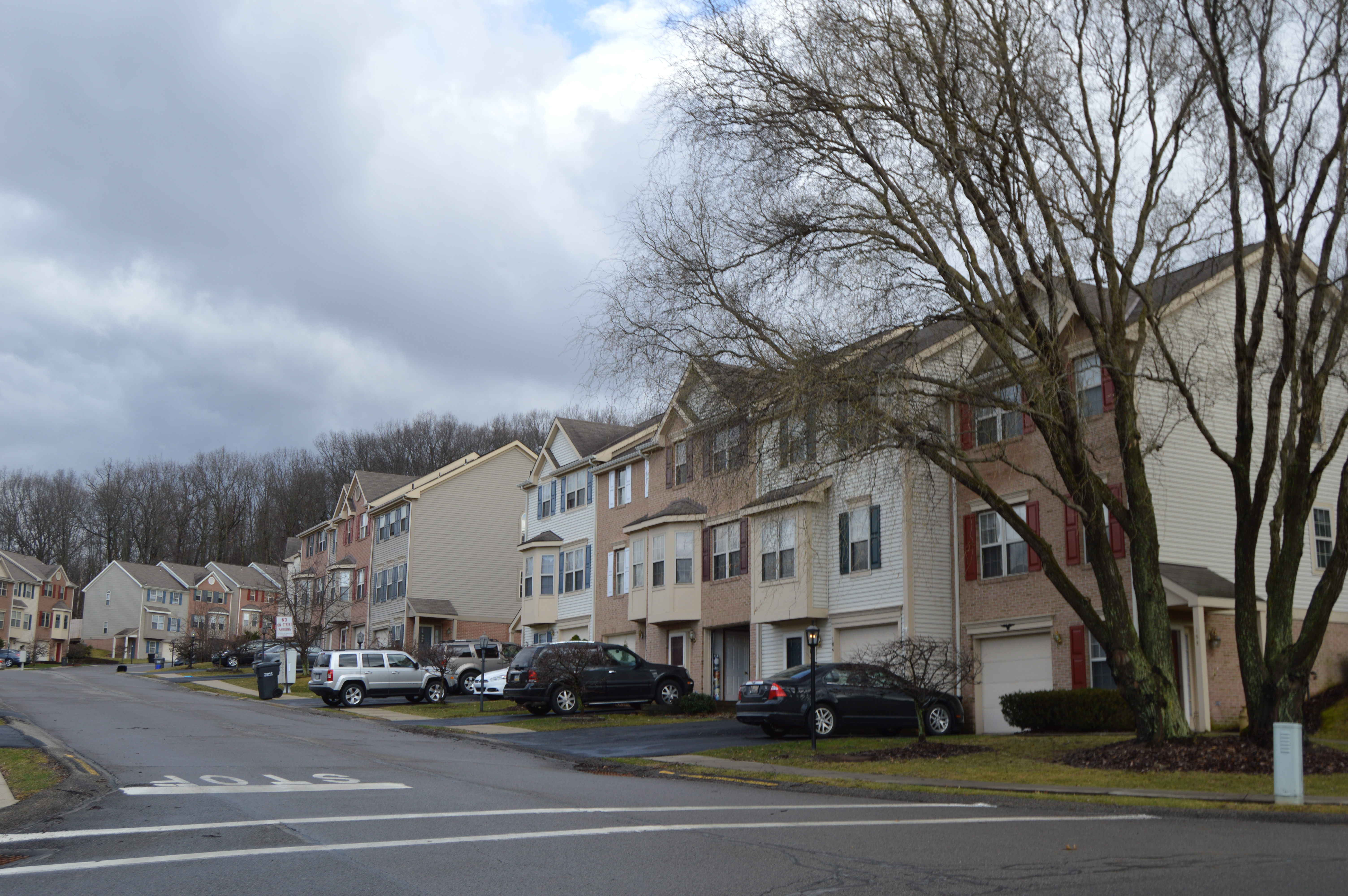 Apartment houses on the southern side of Hillvue Drive, seen from Castle Creek Drive, in Seven Fields, Pennsylvania, United States.